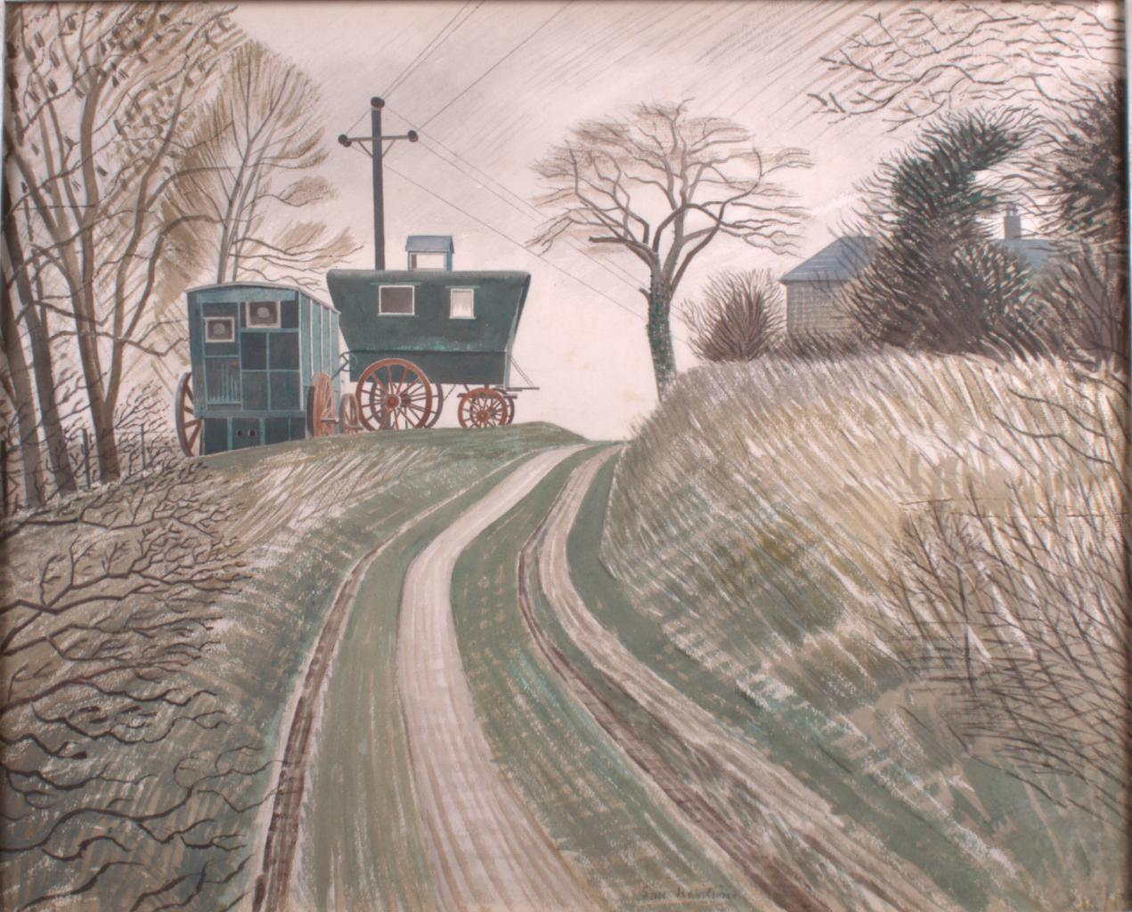 Now at the Fry Art Gallery (accession no. 1777). 350 x 430 mm; watercolour. Painted at Furlongs, a cottage on the South Downs, near Glynde and Lewes, which was occupied by Ravilious' friend Peggy Angus. The caravans were Ravilious'.